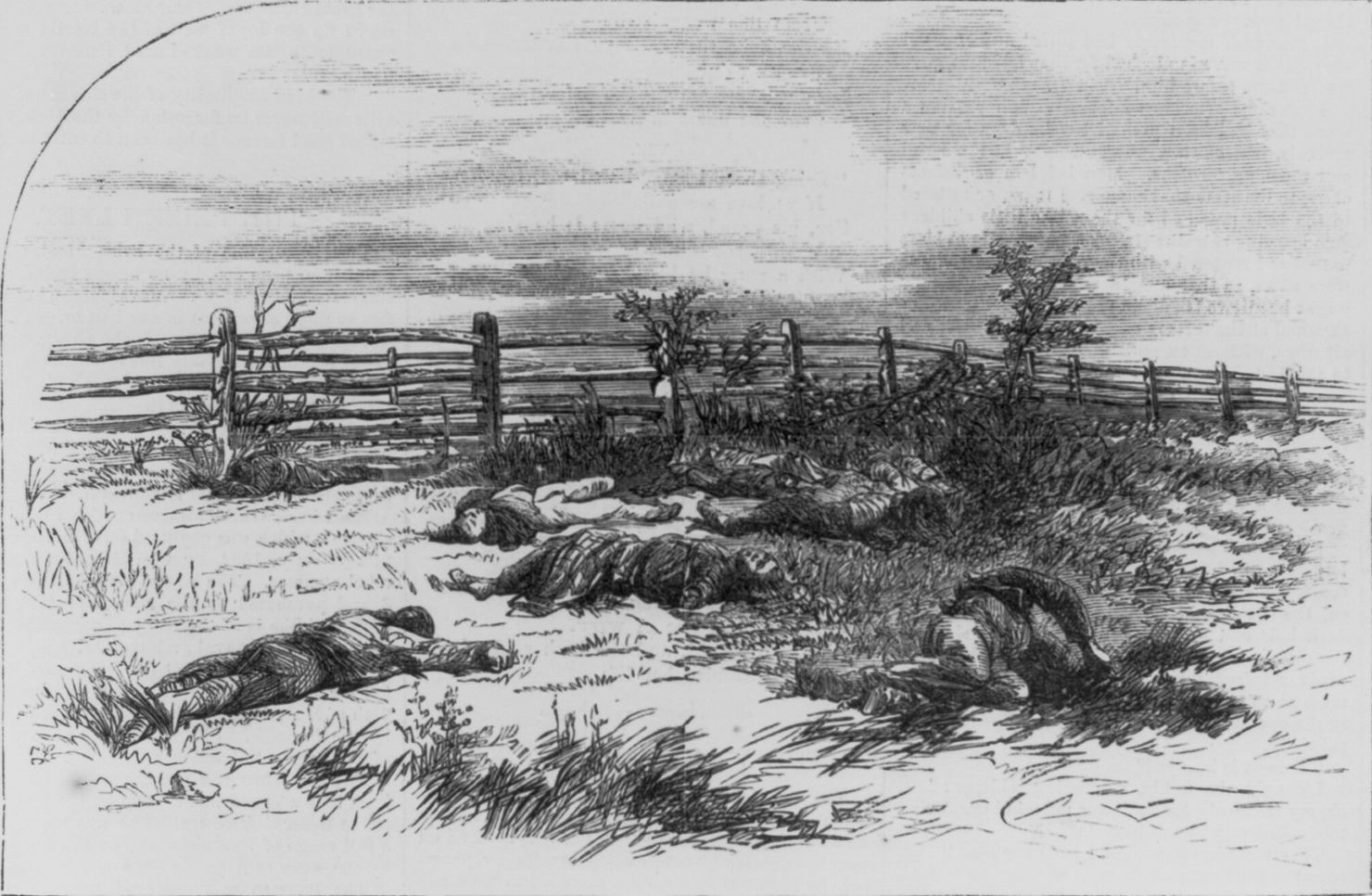 Drawing of dead soldiers on the Antietam battlefield during the Civil War, based on a photo by Alexander Gardner; published in Harper's Weekly, 1862, p. 664.